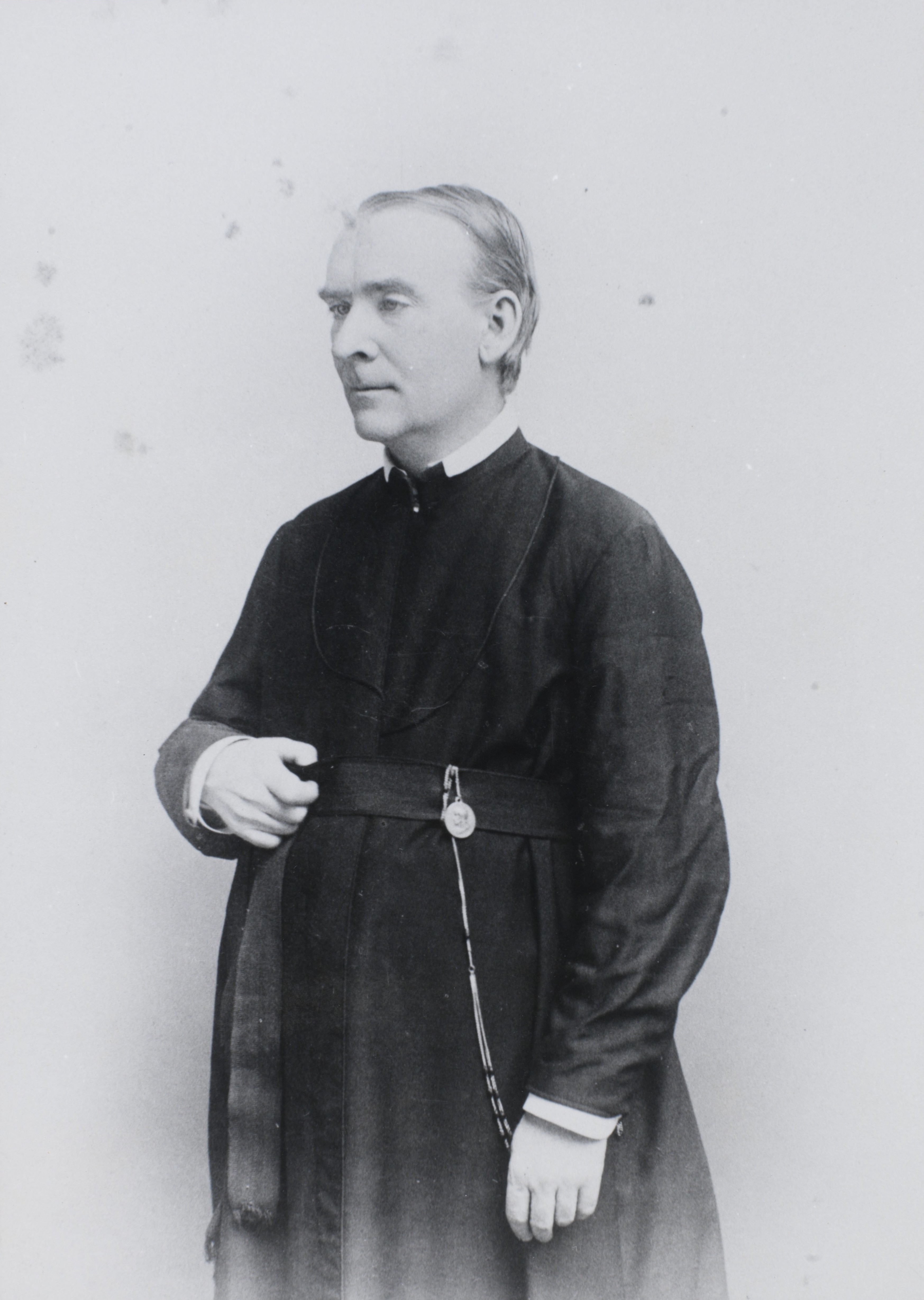 Photograph of Rev. Edward Devitt, S.J., president of Boston College